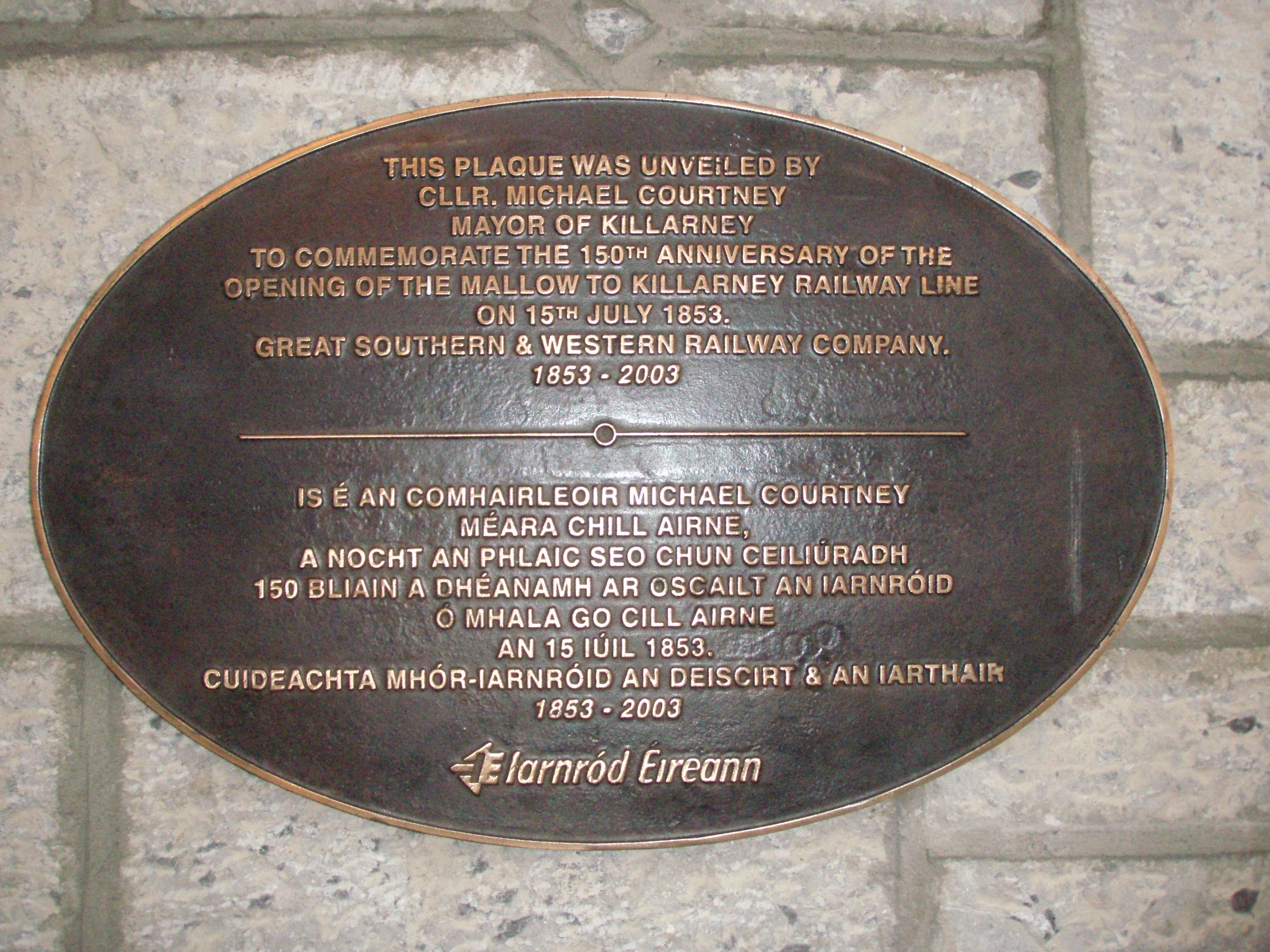 With the coming of the Railway tourism grew rapidly in Killarney